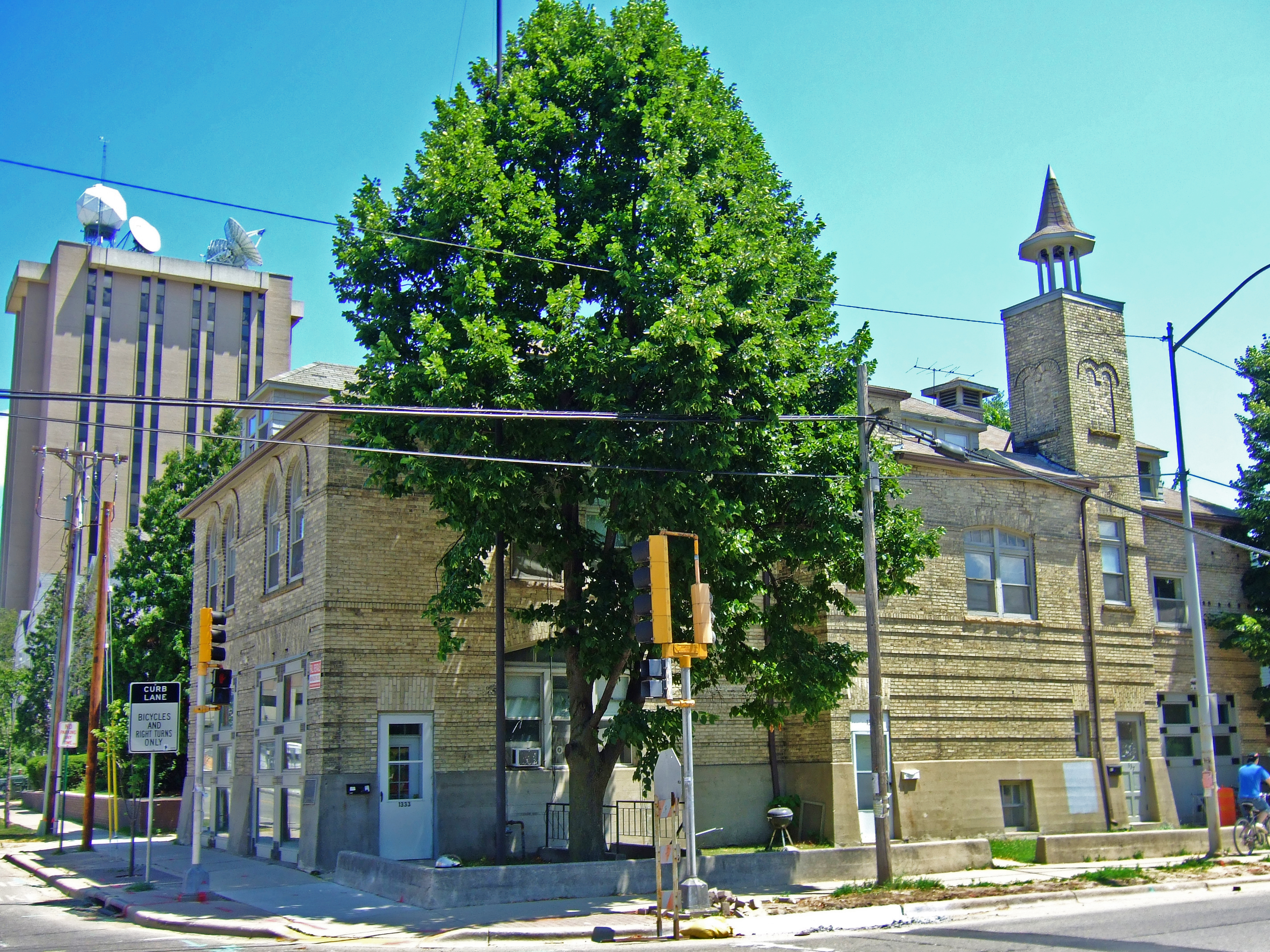 Fire Station #4 at 1329 W. Dayton Street in Madison, Wisconsin, is one of the oldest firehouse buildings in the city and was added to the National Register of Historic Places in 1984. Designed by local architect Lew F. Porter and built in 1904-05, the station features tiny windows on the east facade that originally lit horse stalls. The rapid expansion of University Heights, Wingra Park, and other near west side neighborhoods at the turn of the century necessitated the construction of this firehouse, which was the first built outside of the central city. In 1983, the Fire Department moved, and in 1984, the building was rehabilitated into six townhouse apartments.